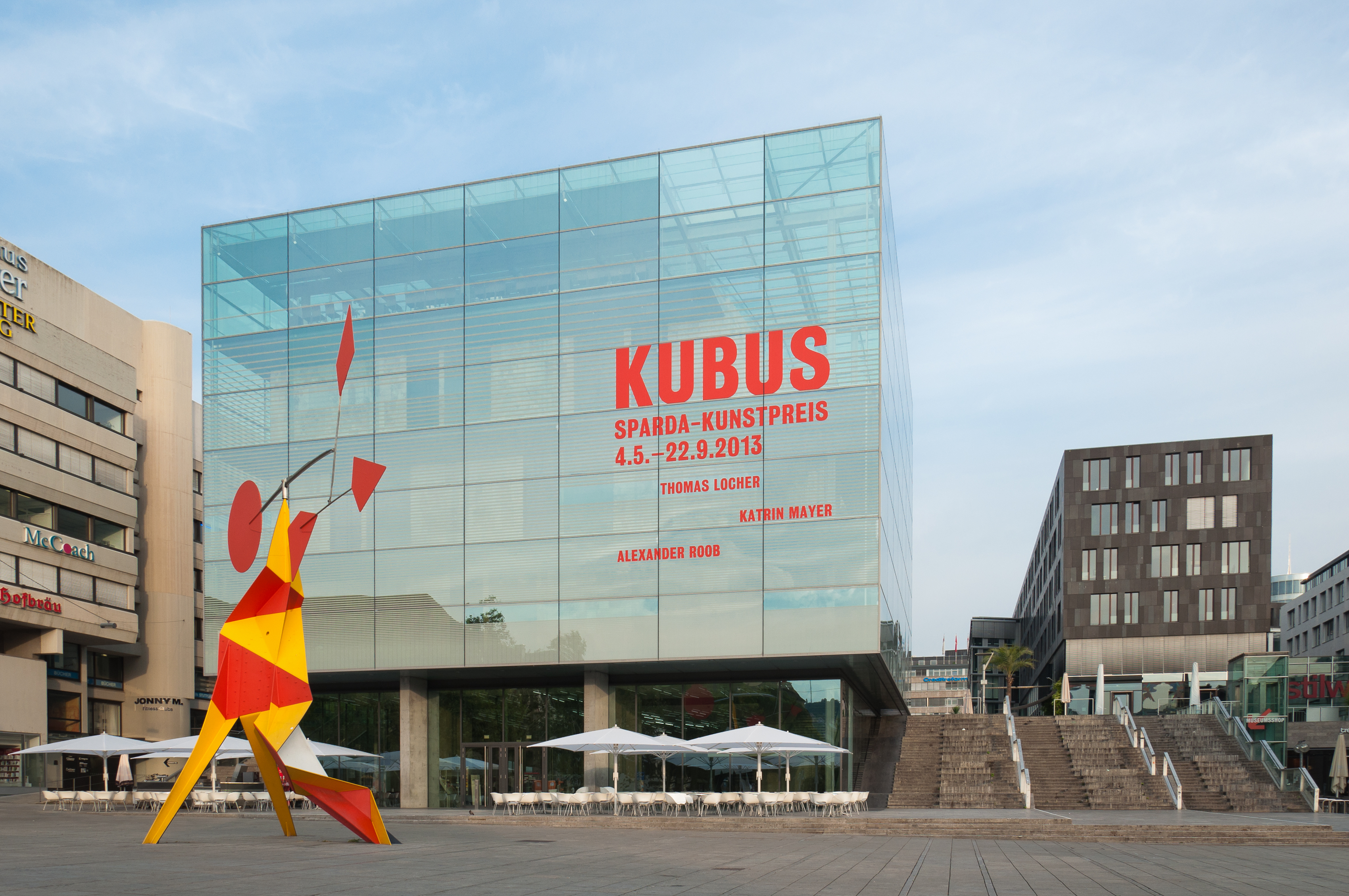 Kunstmuseum Stuttgart (Modern Art Museum) in morning light.